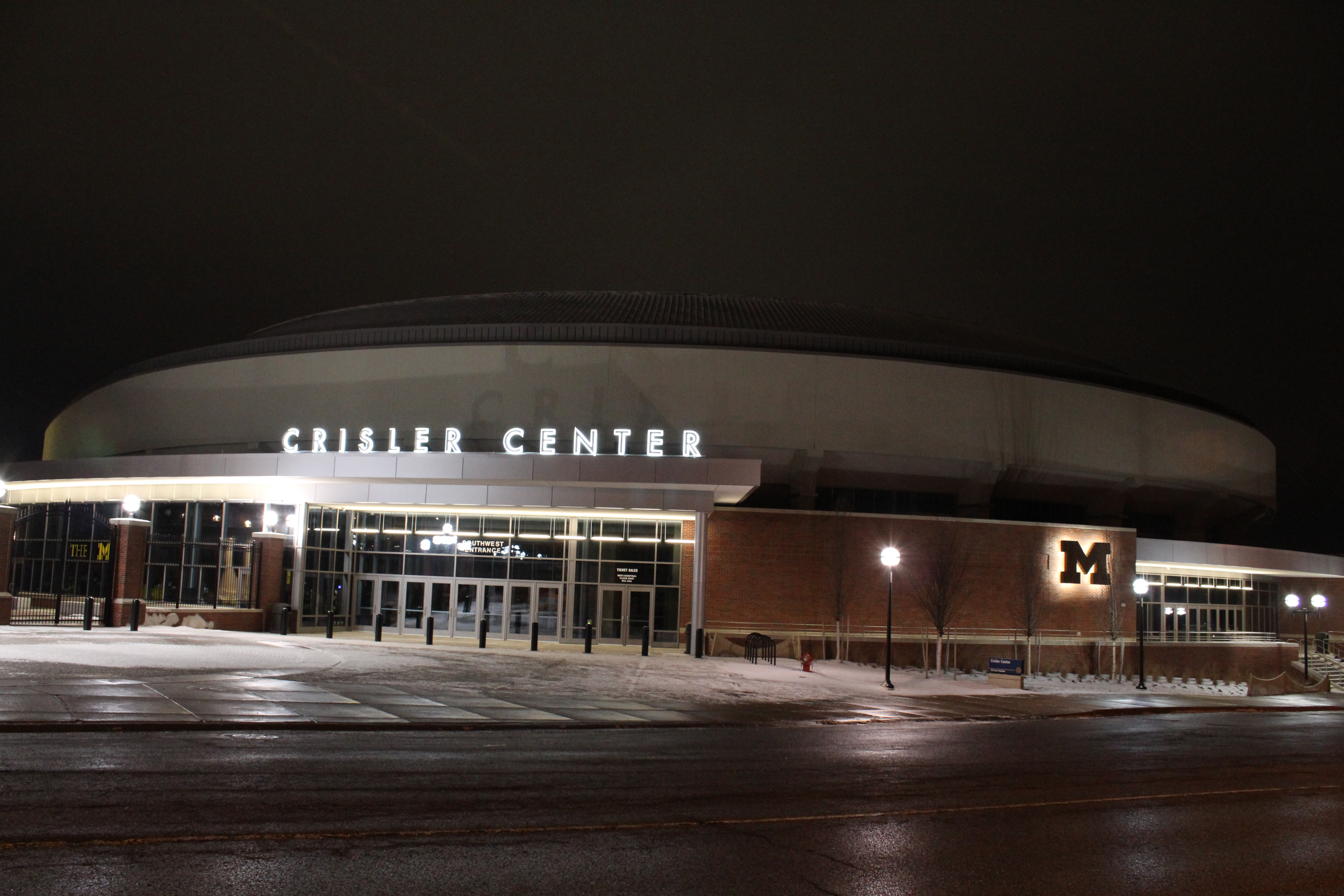 Crisler Center at night, University of Michigan, 333 E. Stadium Blvd., Ann Arbor, Michigan.